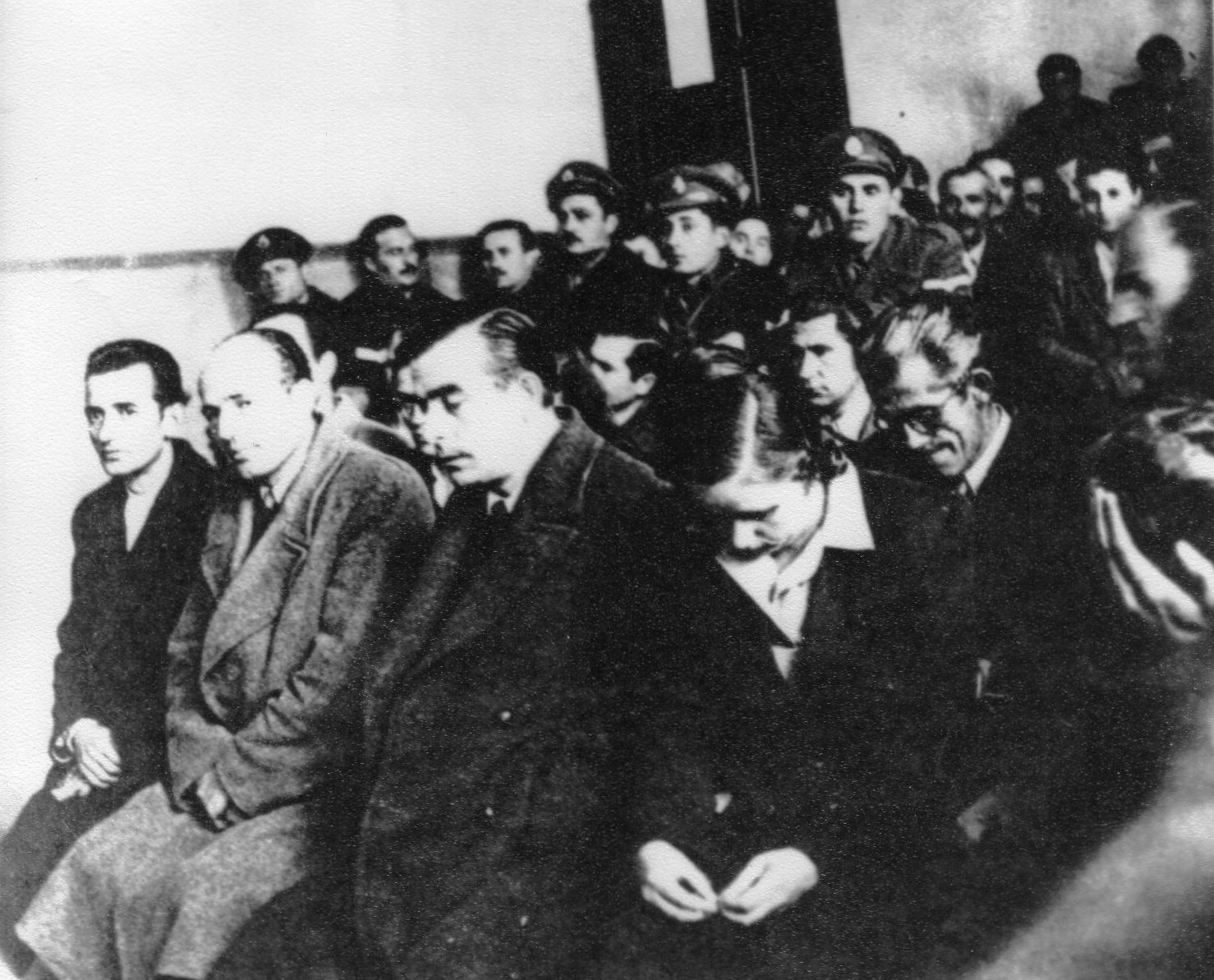 People from the left wing party in a military court during the Greek Civil War (1945-1949) This media file is produced by Wikipedian in Residence in Category:Wikipedian in Residence at DARM in 2016.